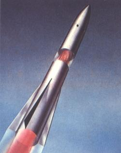 Artist's concept of the "Wizard" surface-to-air missile.